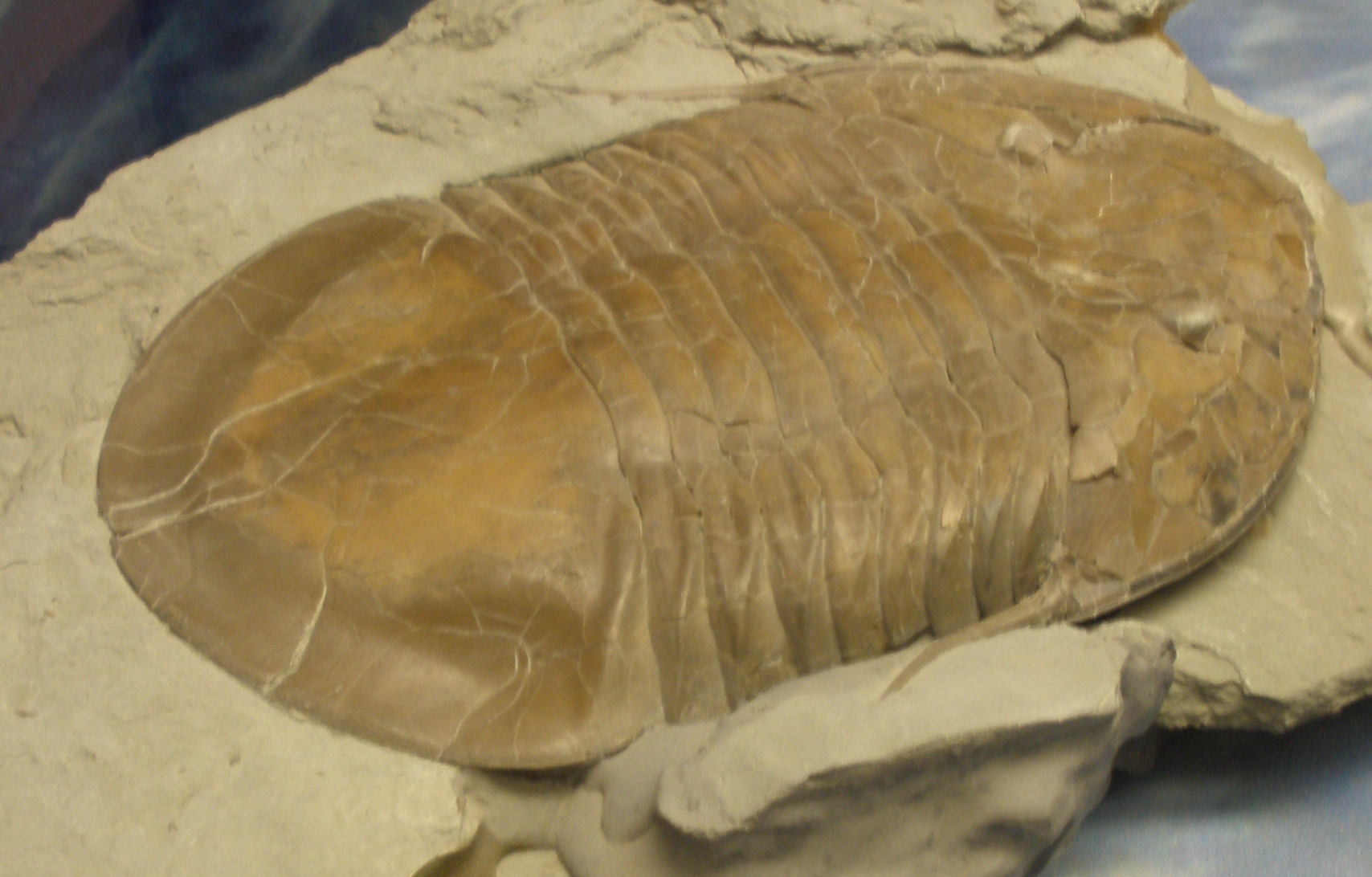 Fossil Isotelus brachycephalus Took the photo at Museo di Storia Naturale di Milano